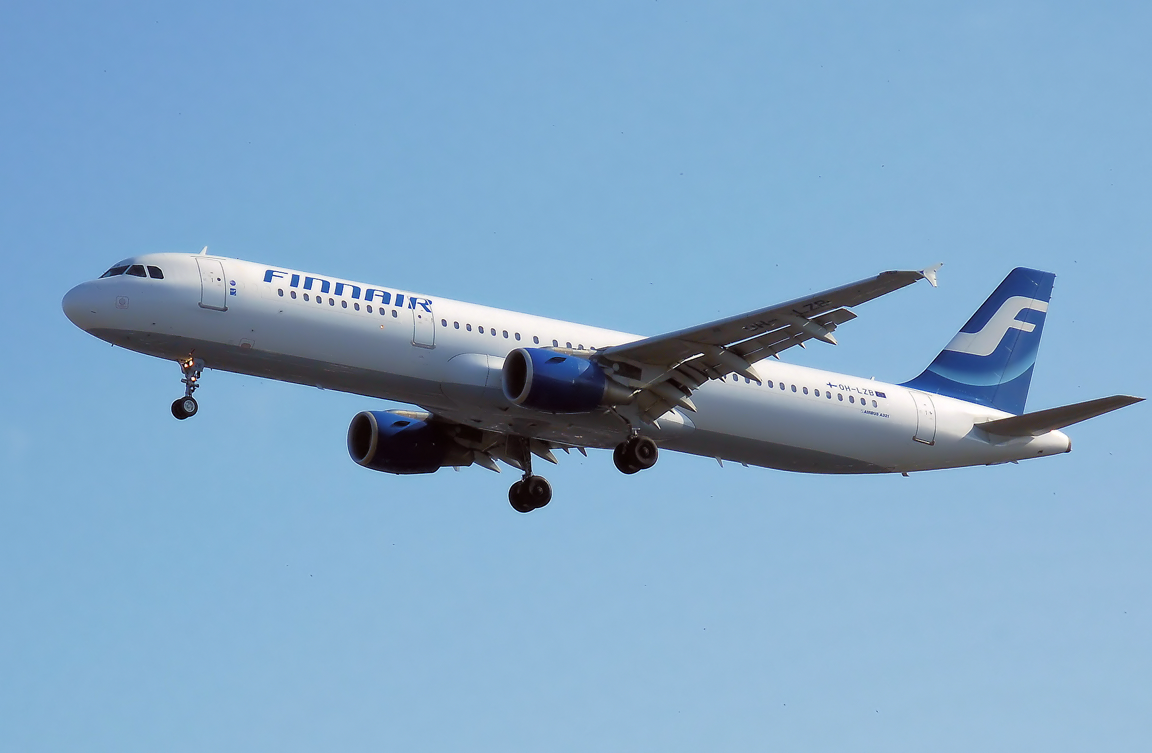 Finnair Airbus A321 landing at London Heathrow Airport